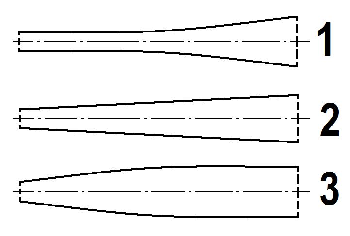 3 div.Mouthpiece-backbore